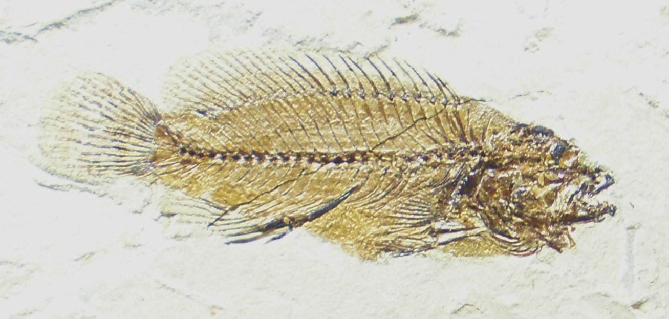 Fossil of Eolabroides szajinochae, an extinct fish